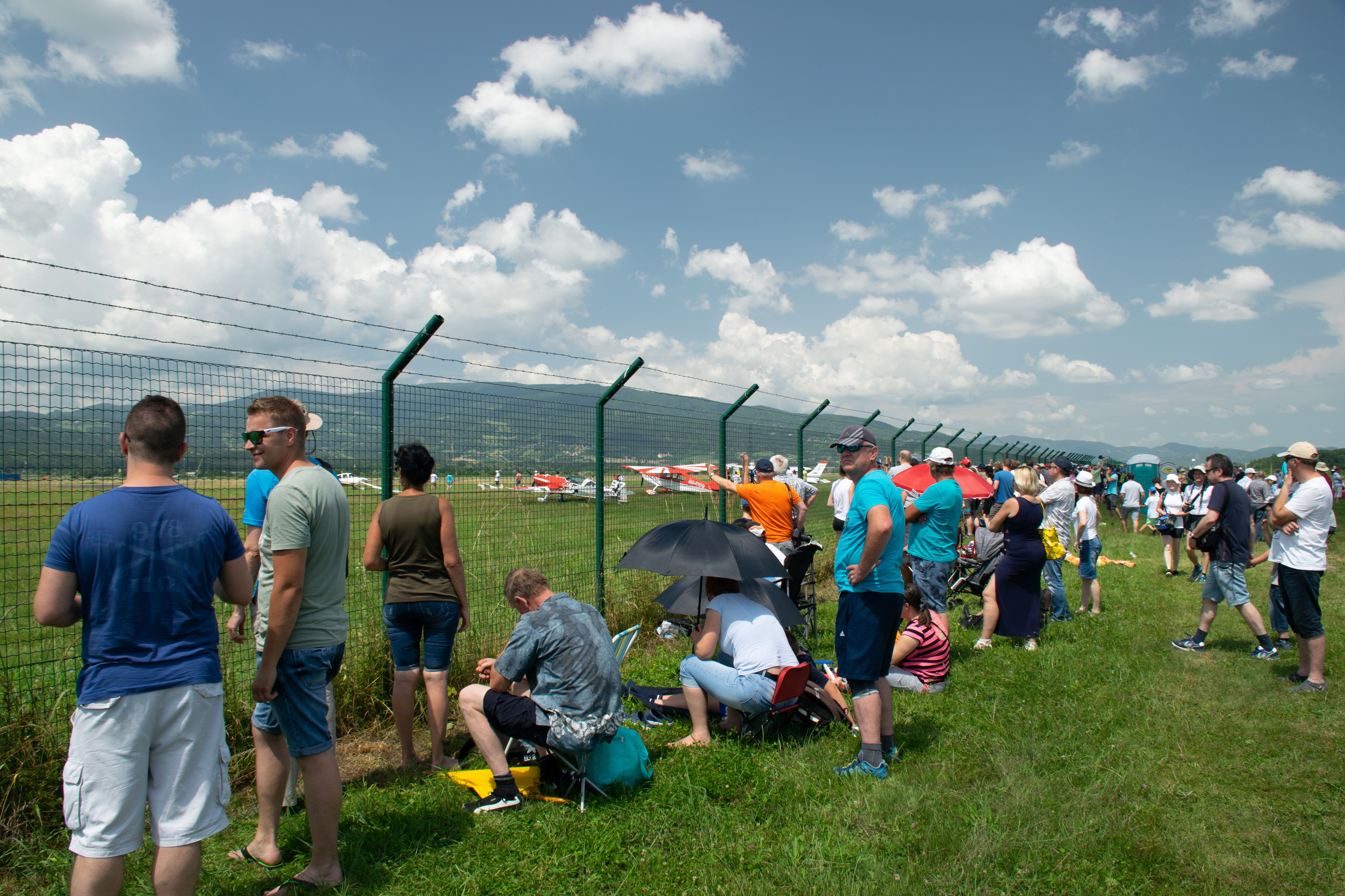 Aeros Air Show 2018